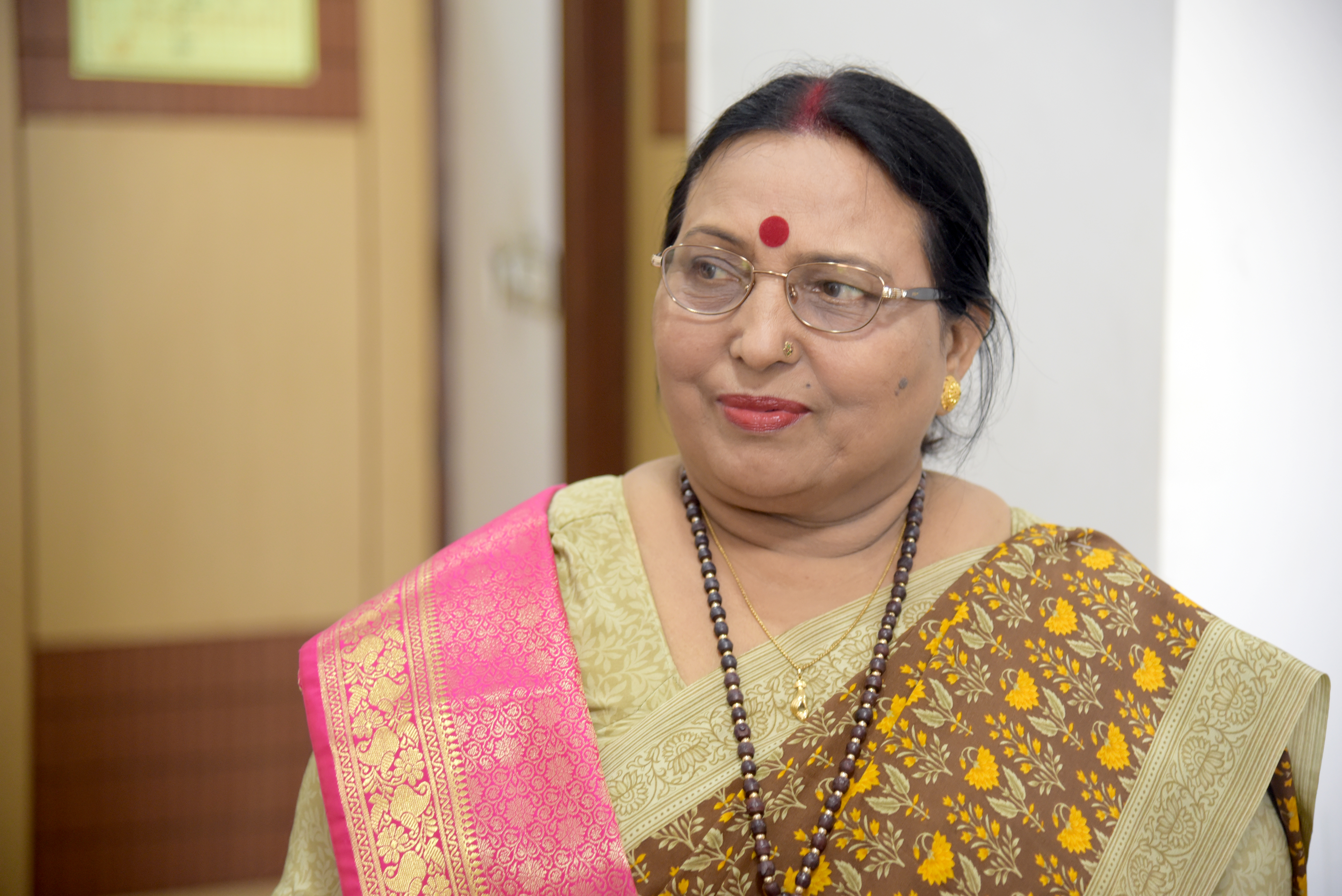 Padma Bhushan Awardee Shardha Sinha, This image is taken during GAP SAP interview at BHU, Varanasi